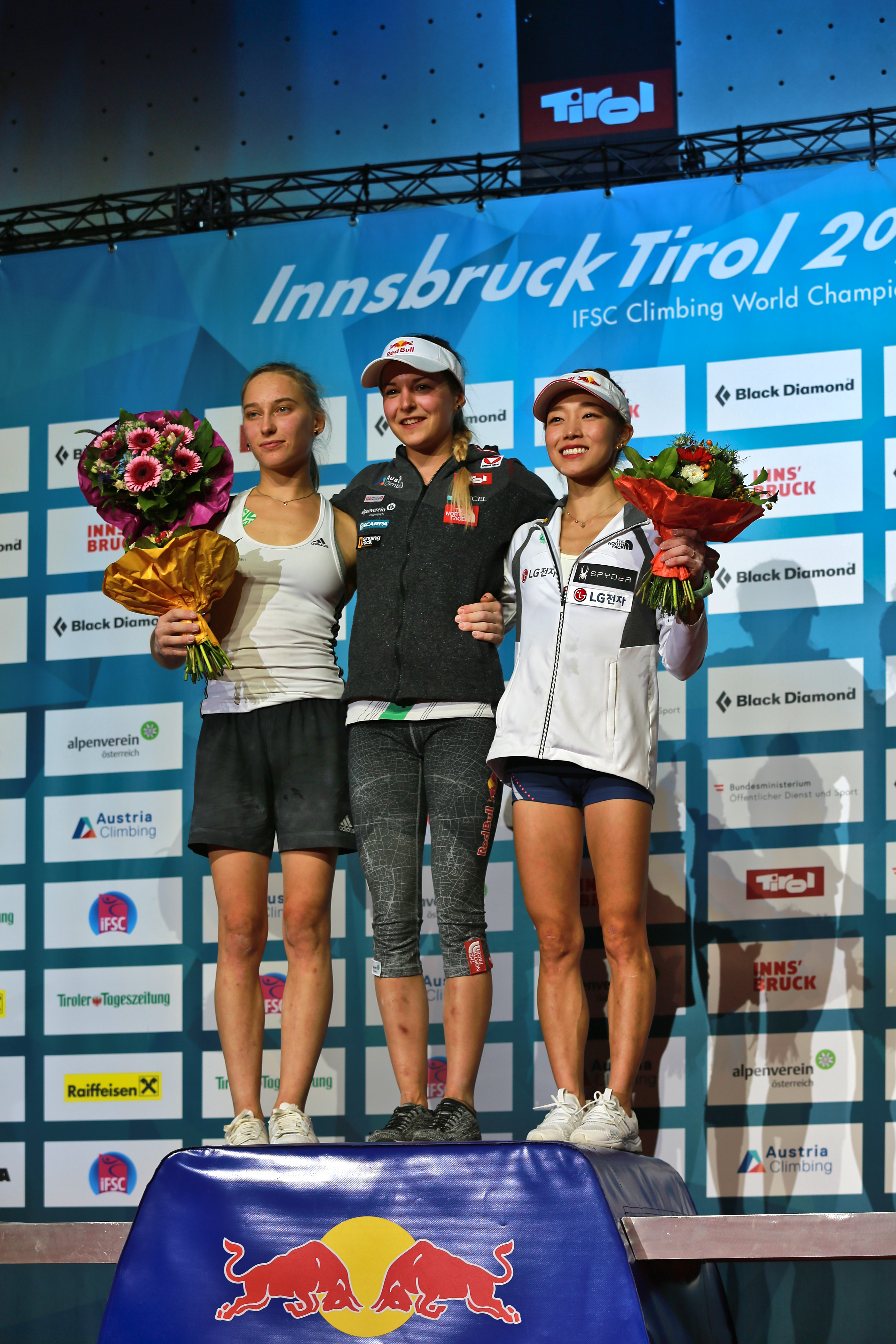 IFSC Climbing World Championships Innsbruck 2018 Final WOMAN lead – winners 2nd Janja Garnbret (left), 1st Jessica Pilz (middle), 3rd Jain Kim (right)